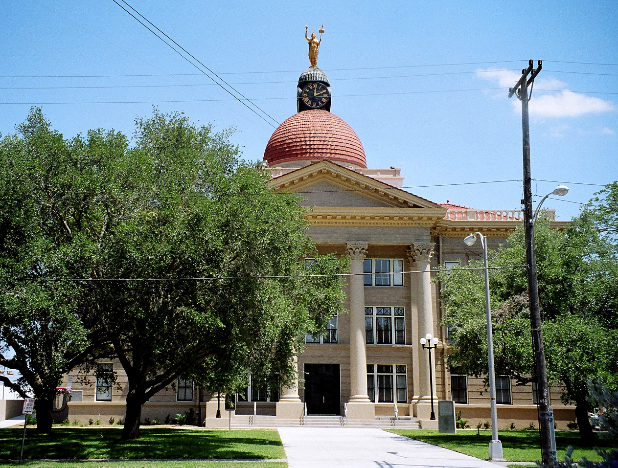 The Bee County, Texas courthouse located in Beeville, Texas, United States. The Beaux Arts style structure was built in 1913, designated a Recorded Texas Historic Landmark in 2000 and listed on the National Register of Historic Places on February 9, 2001.